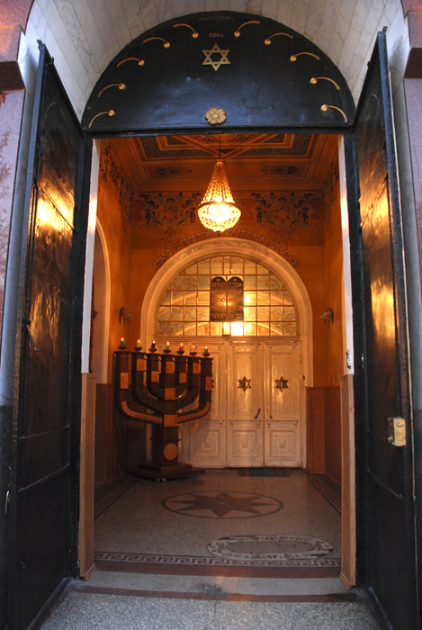 The Synagogue in Tbilisi Georgia